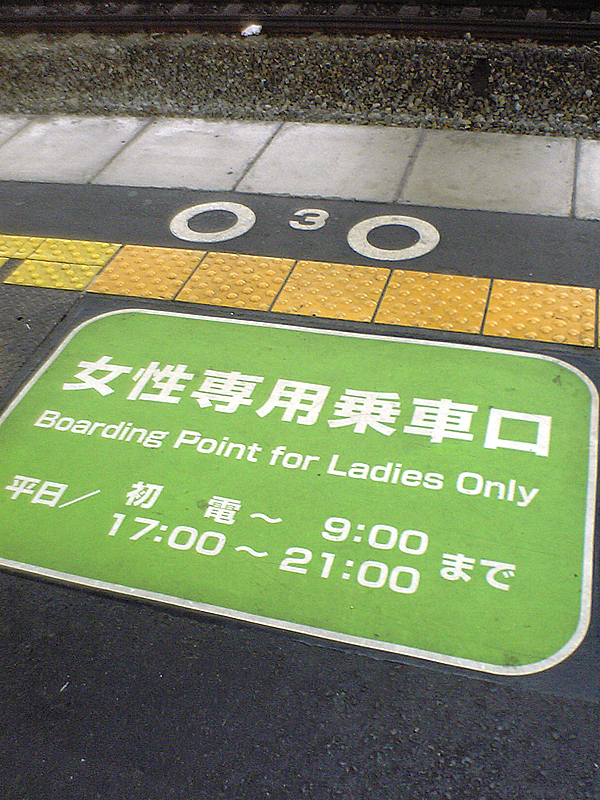 A sign on a train boarding platform in Osaka, Japan, showing the boarding point for a ladies-only car. These cars have become neccesary due to high levels of groping in mixed cars. Two-thirds of women between the ages of 20 and 40 say they have been groped on the train in Japan.